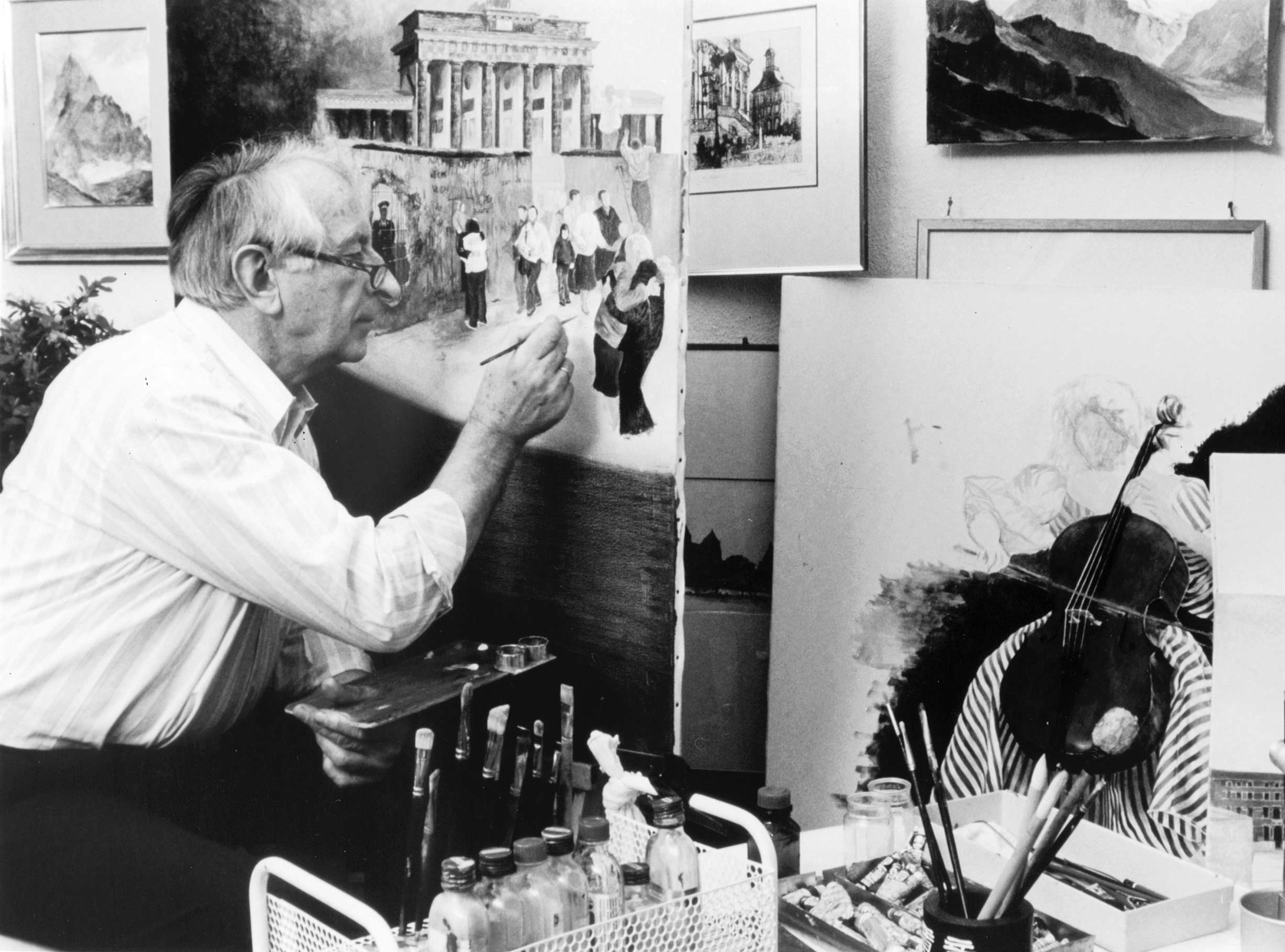 Heinrich J. Jarczyk, 1989; Portrait by Angela Krebs